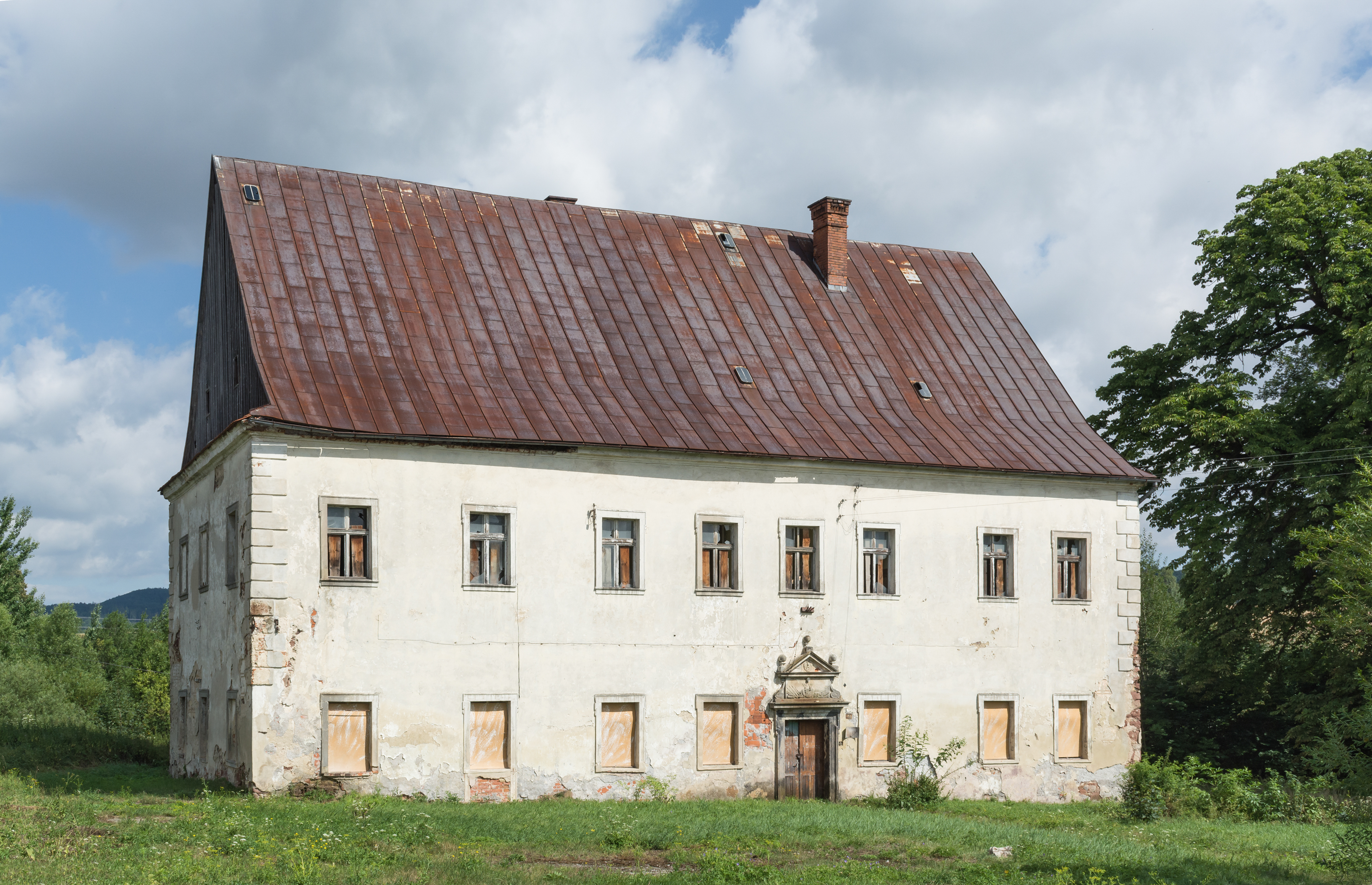 Manor in Wojbórz